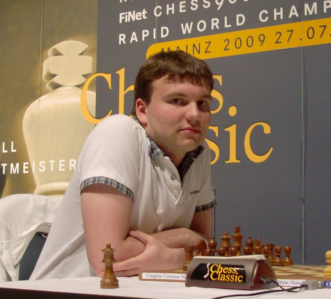 Igor Lysyj, chess grandmaster from Russia